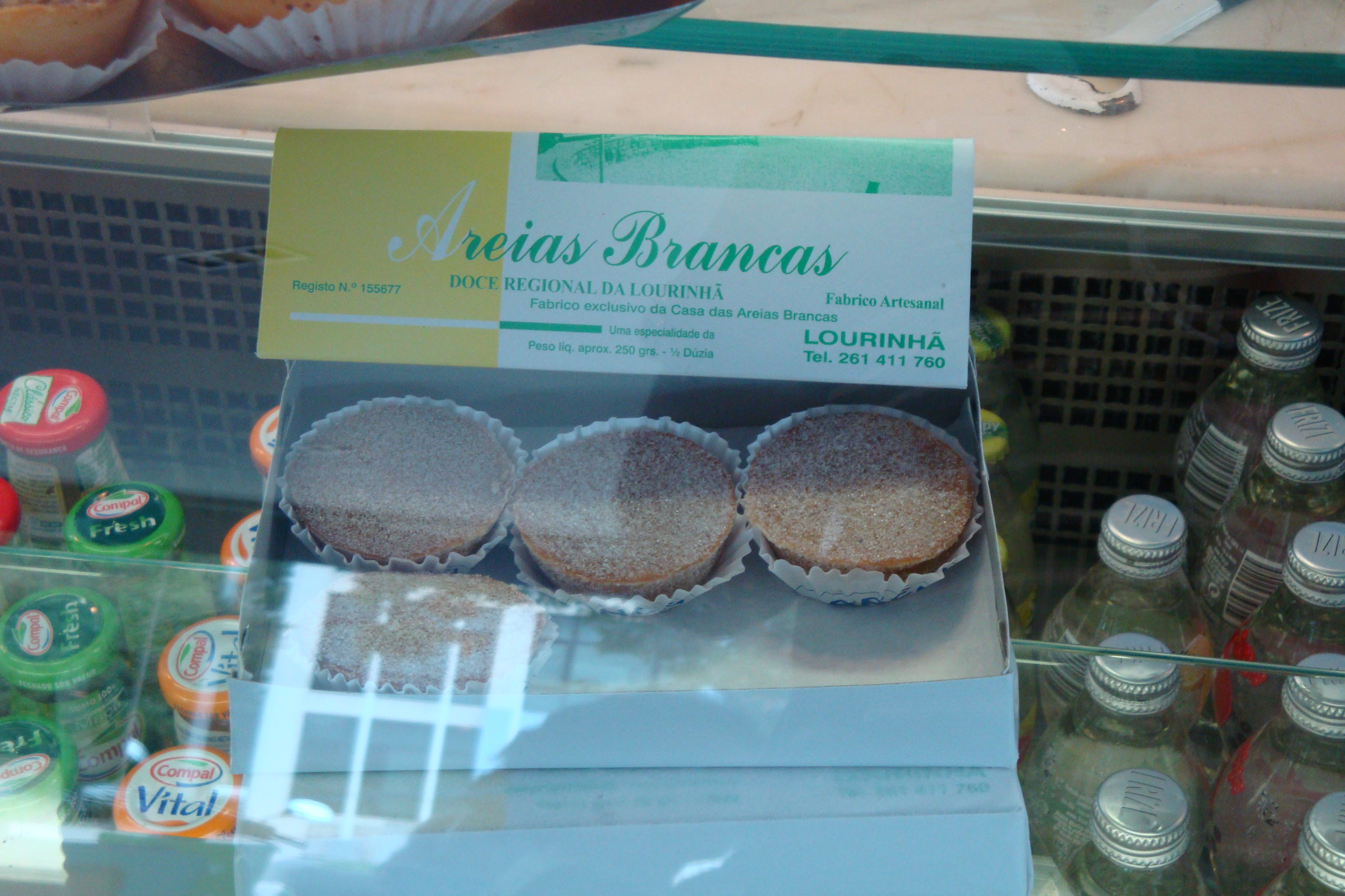 Cake Areias Brancas